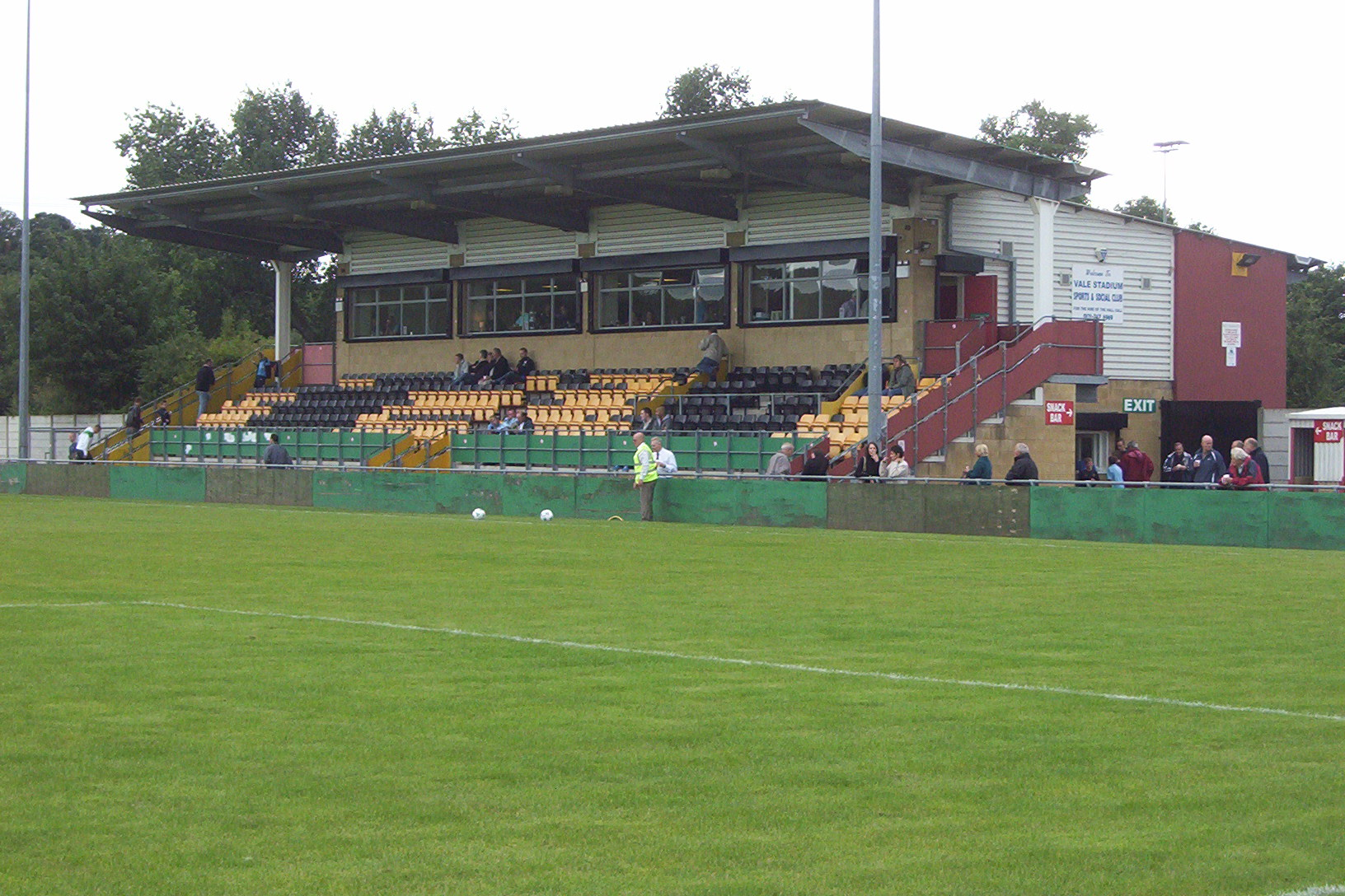 The grandstand at Vale Stadium, home of Castle Vale F.C., photographed by myself on 16 August 2008.